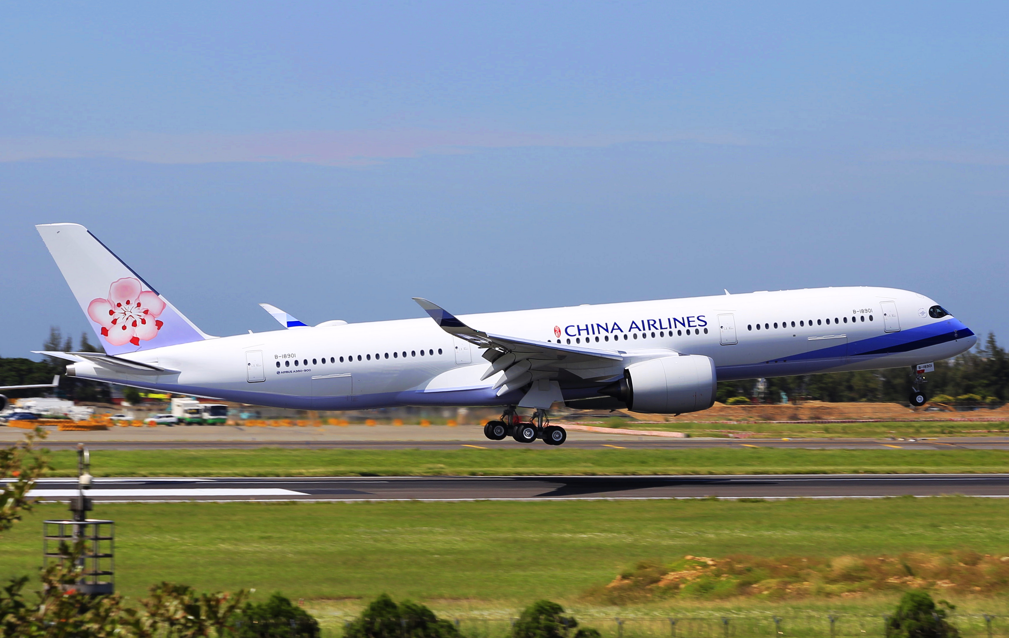 China Airlines Airbus A350-941 landing at Taiwan Taoyuan International Airport